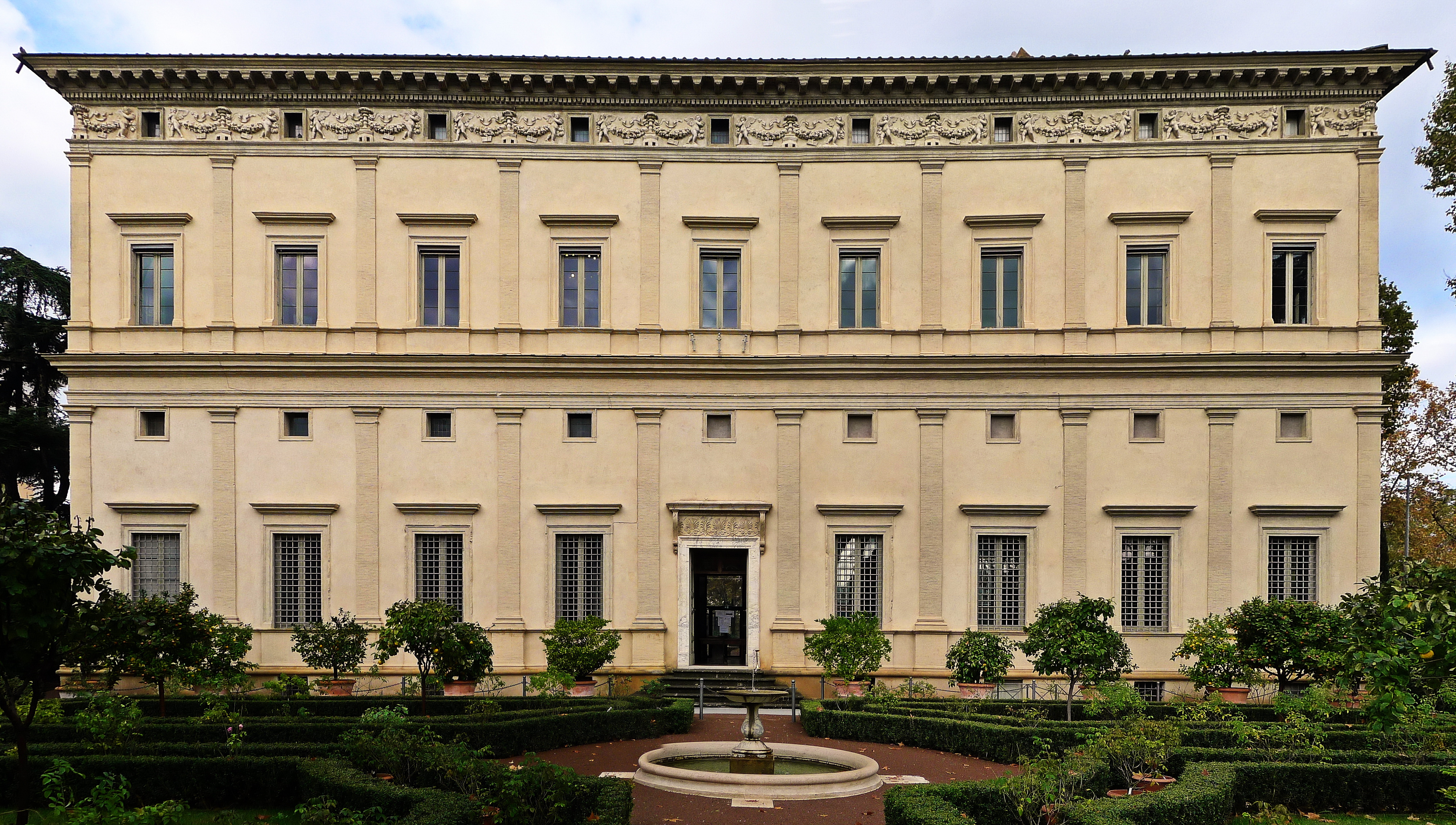 Villa Farnesina, south view